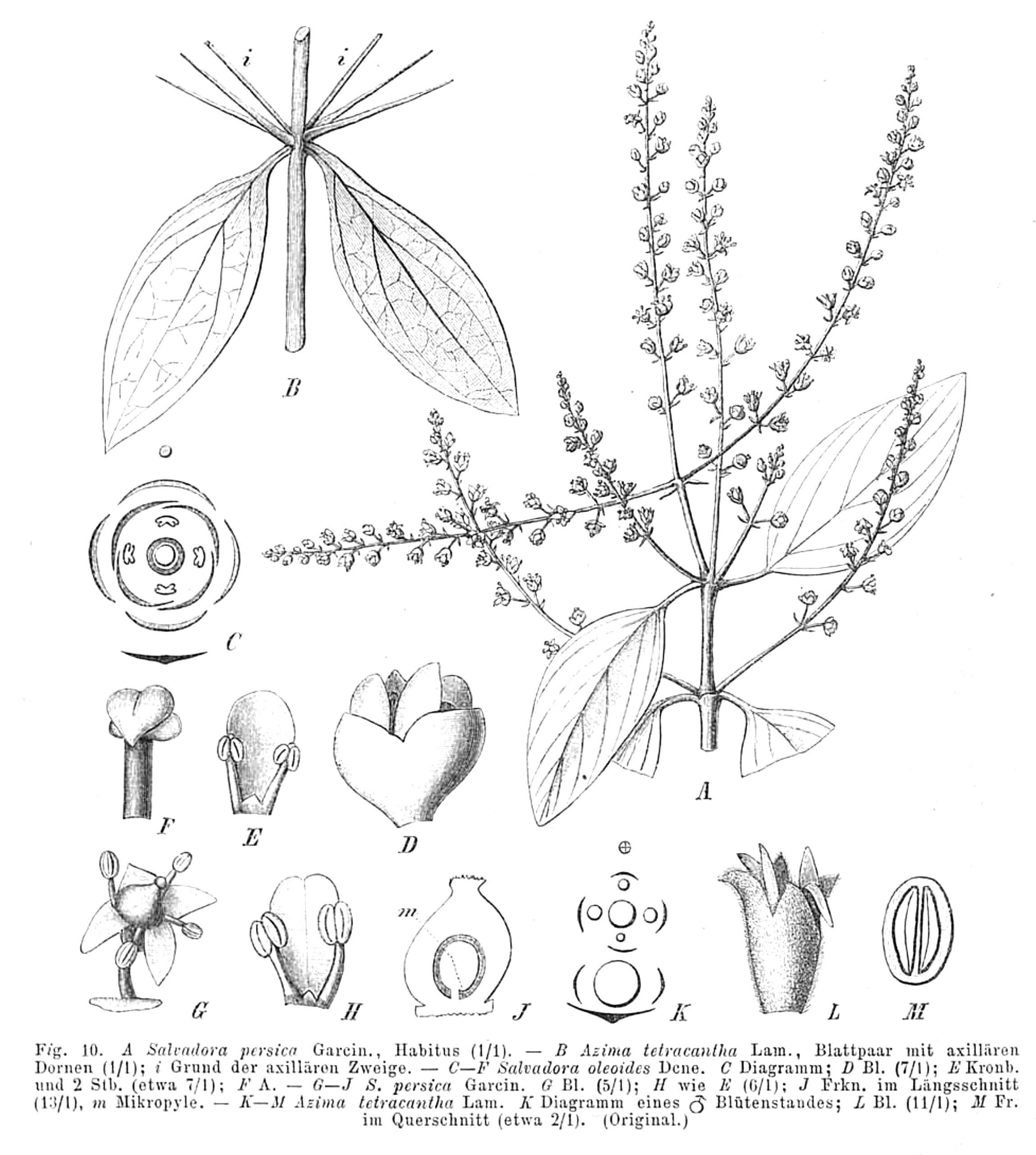 Salvadoraceae sp. A. Salvadora persica Garcin.: Habitus. B. Azima tetracantha Lam.: Leaf pair with axillary thorns; i base of axillary branches. C.-F. S. oleoides Dcne.: C. Diagram. D. Flower E. Petal with two stamina. F. Anther. G.-J. S. persica Garcin.: G. Flower. H. As E. J. Long. cut of ovary. K.-M. Azima tetracantha Lam.: K. Diagram of male flower. L. Flower. M. Cross sec. of fruit.